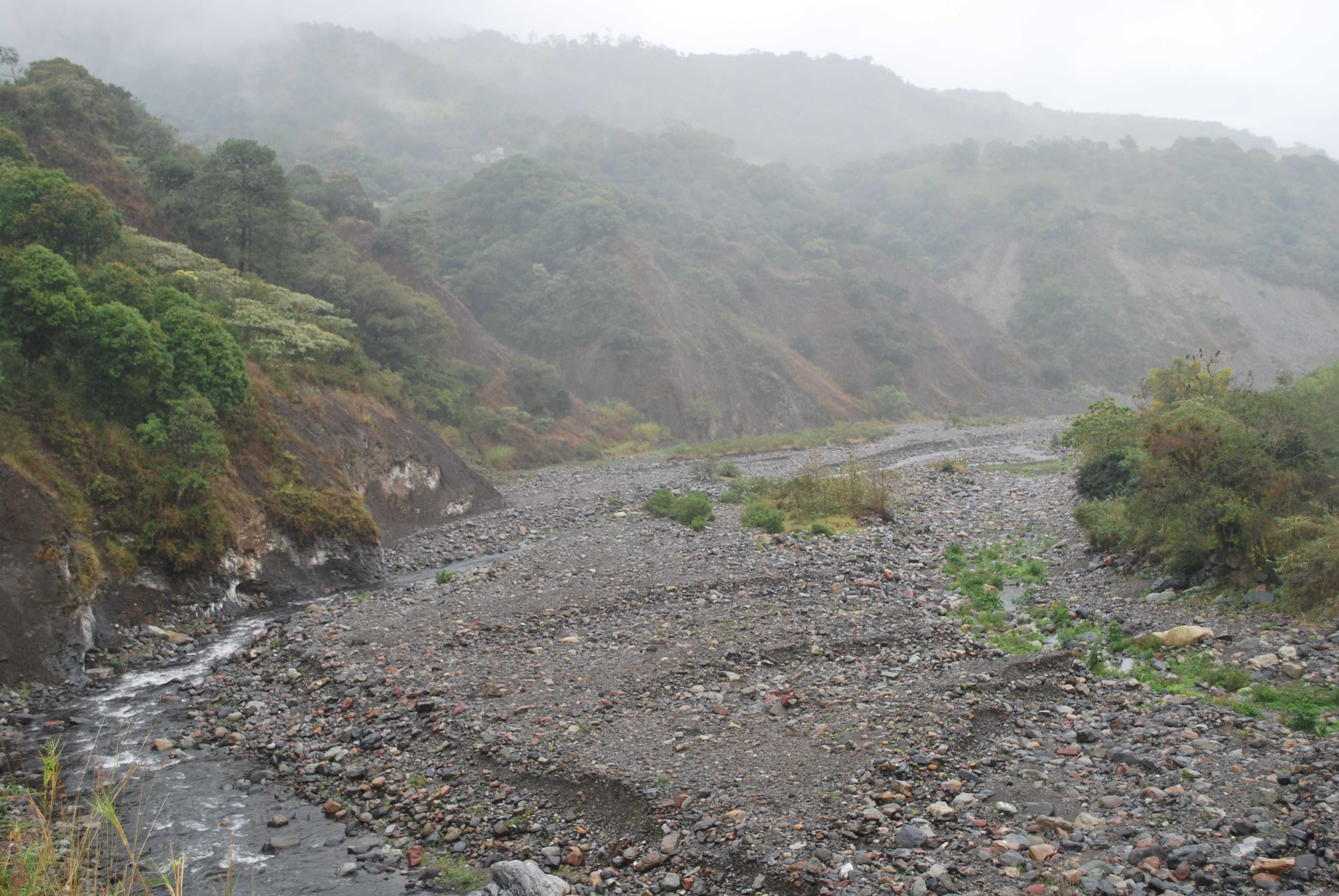 River in Pahuatlan Valley in Puebla, Mexico